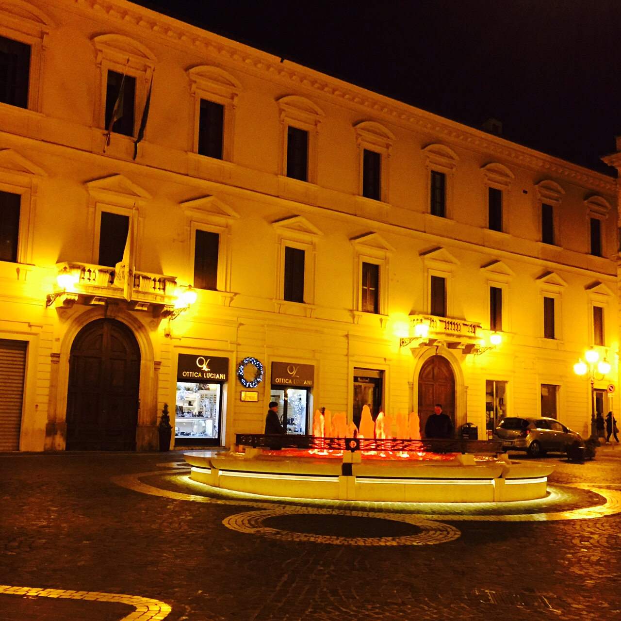 The Archbishop's Palace of Chieti was built during the Middle Ages.